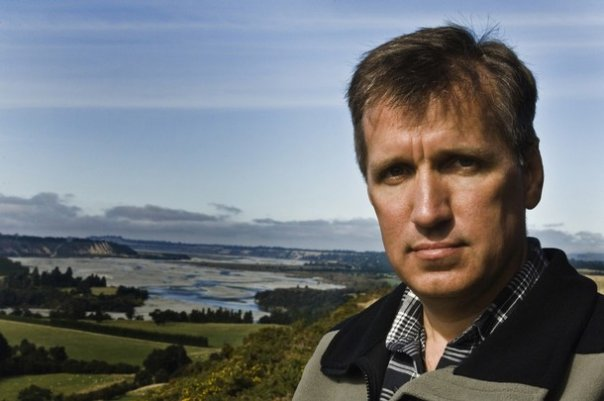 Author James Rollins, 2008, Springfield New Zealand.